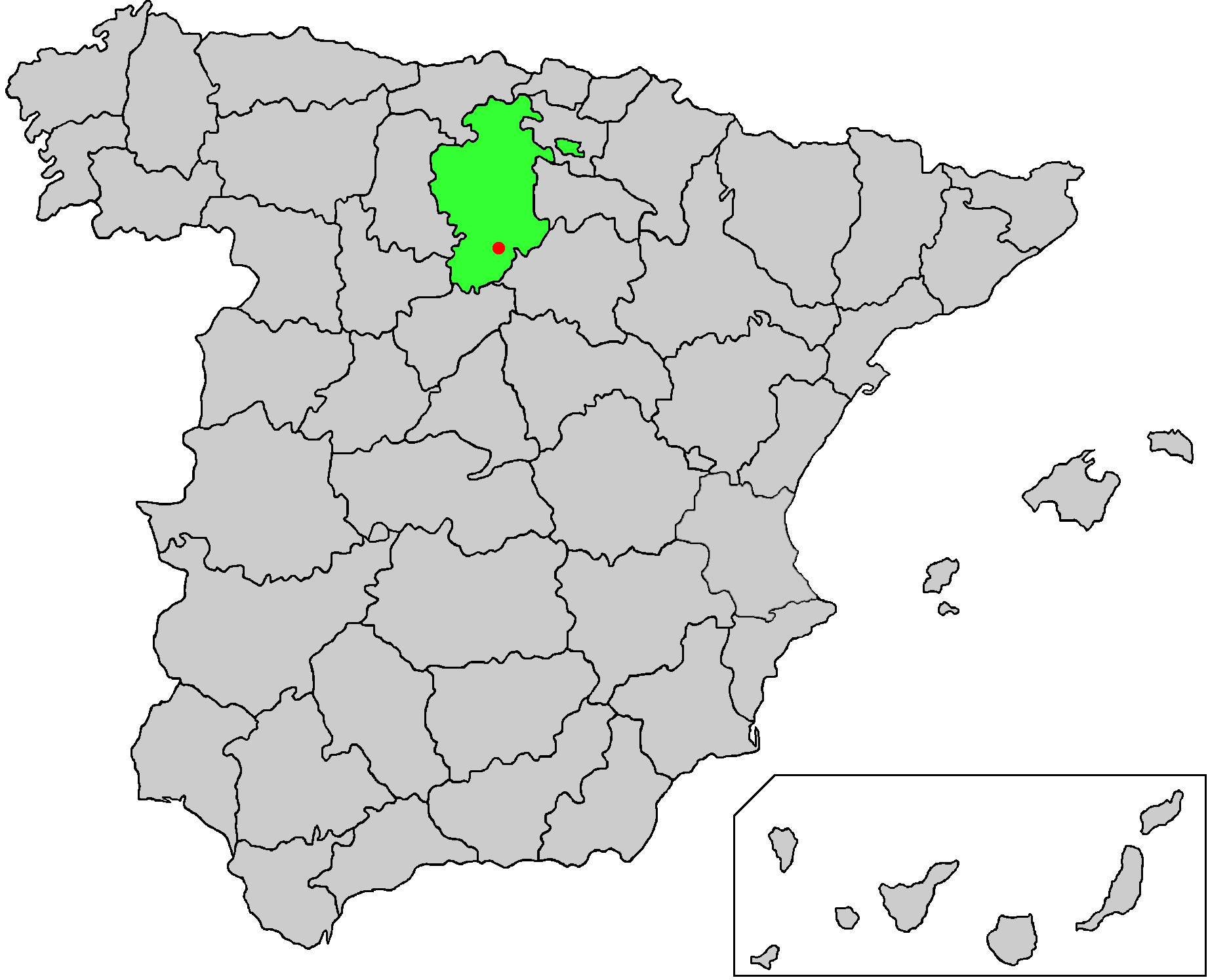 Map of Spain with the province of Burgos highlighted and indicating the location of the town of Caleruega. Created by Mark Somoza